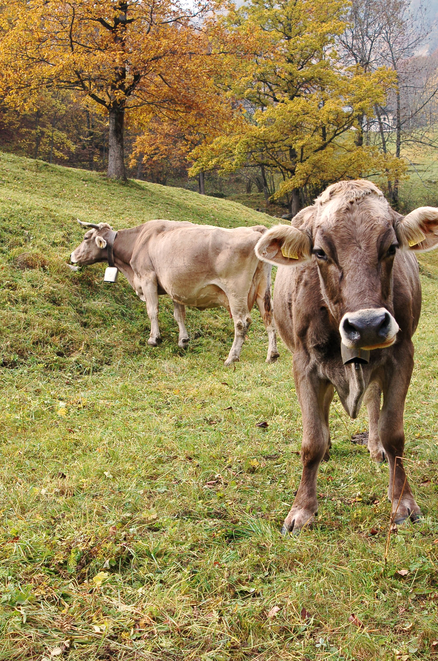 I ran up a hill just to play with these cows for a second. They weren't too interested, but I love the sound of cows grazing in Switzerland; its magical!